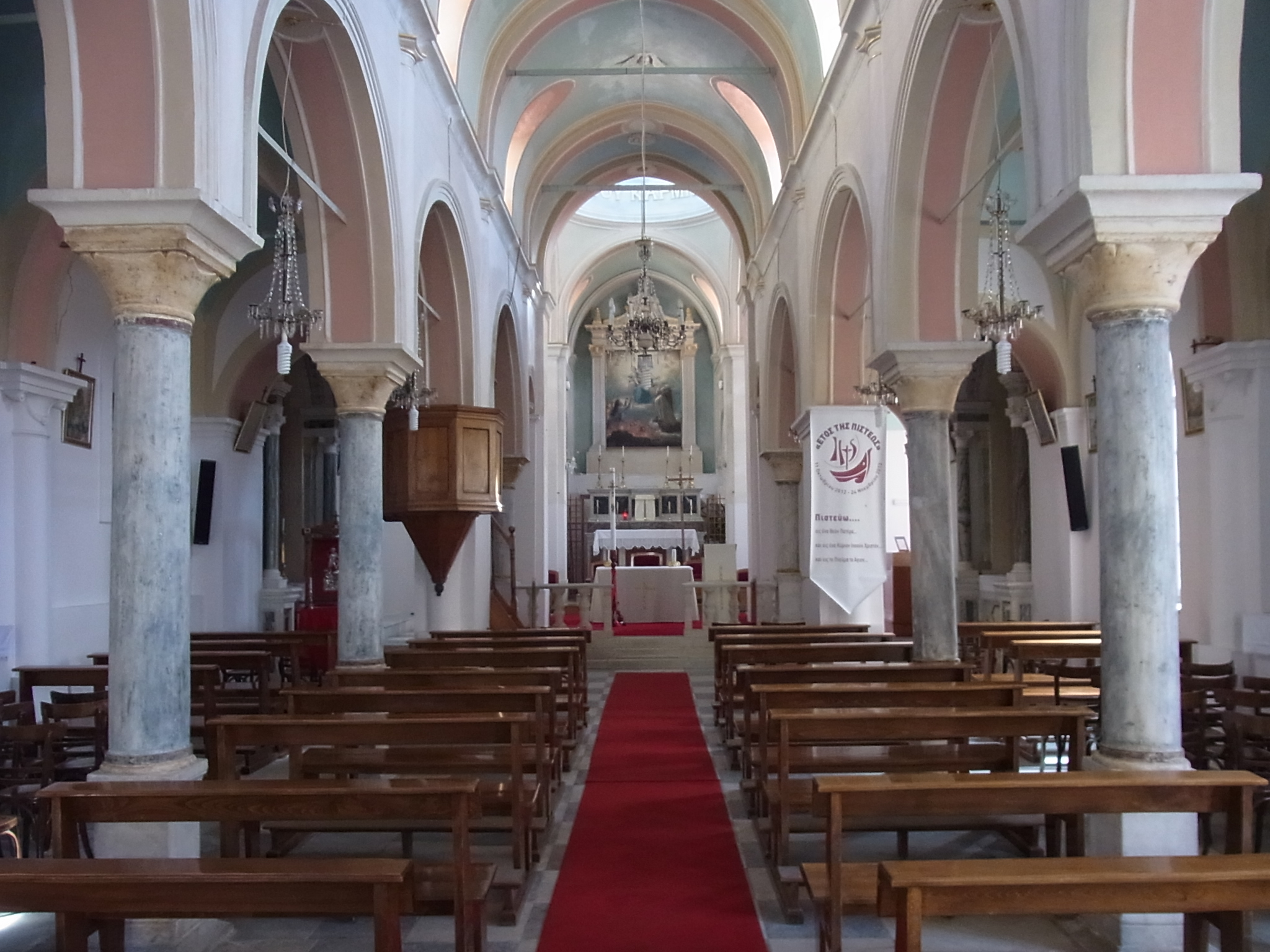 interior view